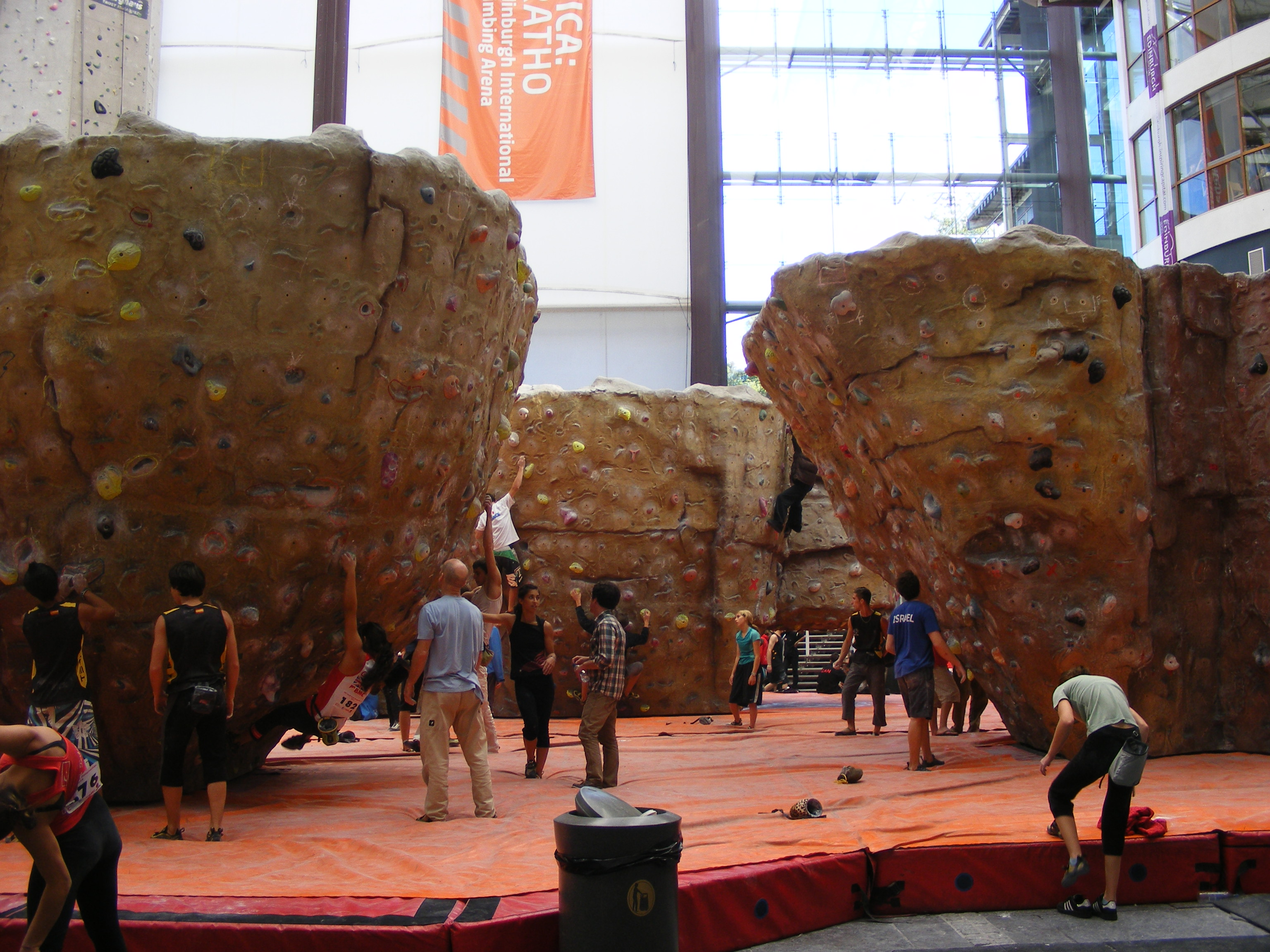 Interior shot of bouldering area at the Edinburgh International Climbing Arena. Ratho, near Edinburgh, Scotland.